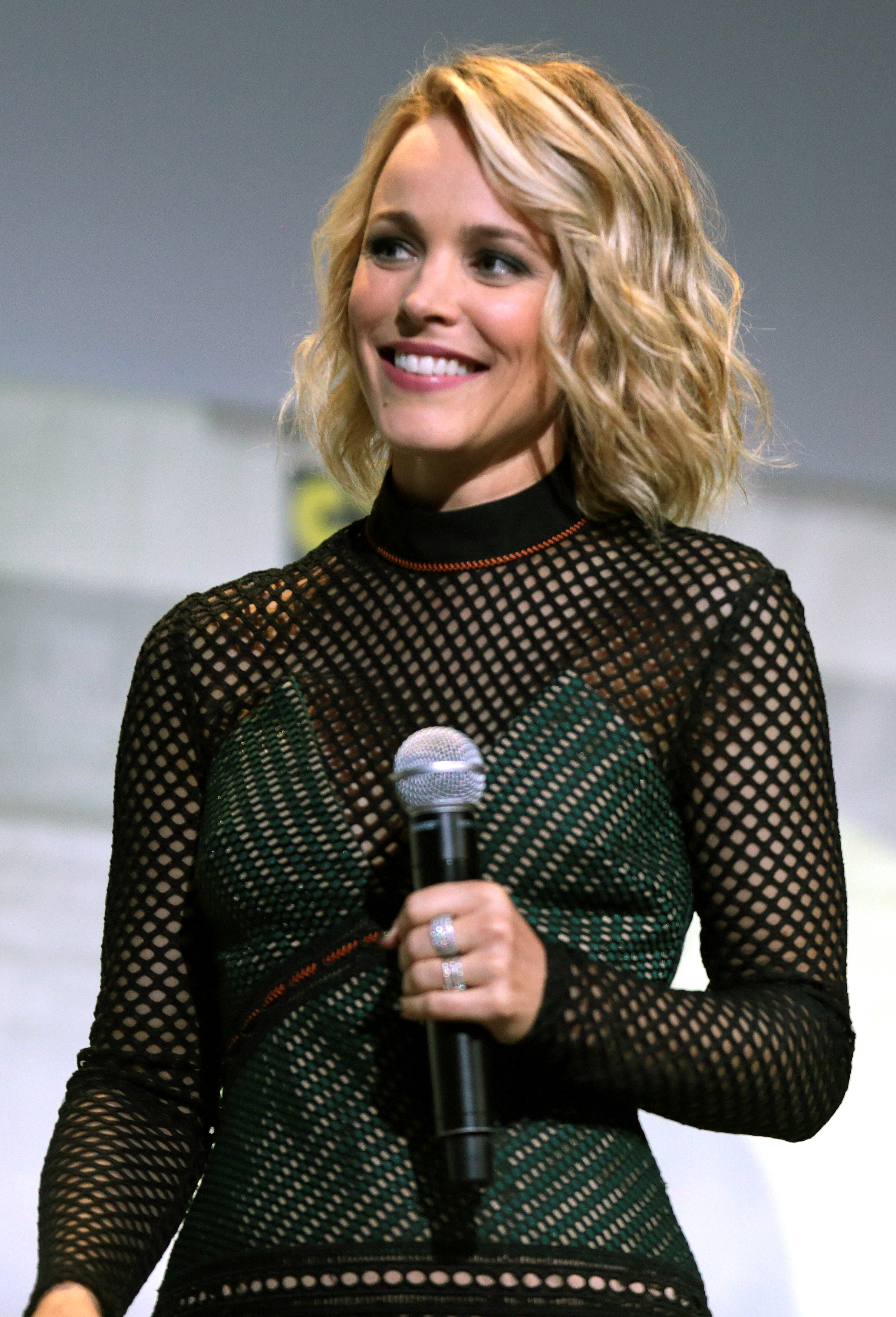 Rachel McAdams speaking at the 2016 San Diego Comic-Con International in San Diego, California.